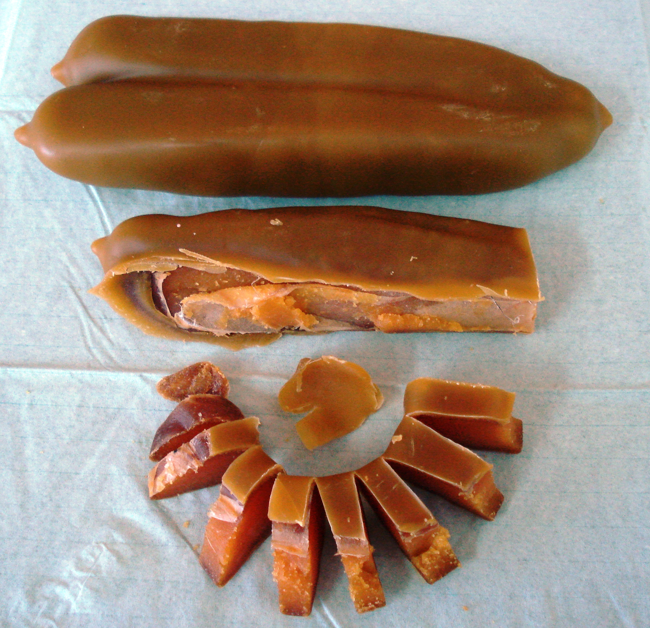 Bottarga from Preveza Greece